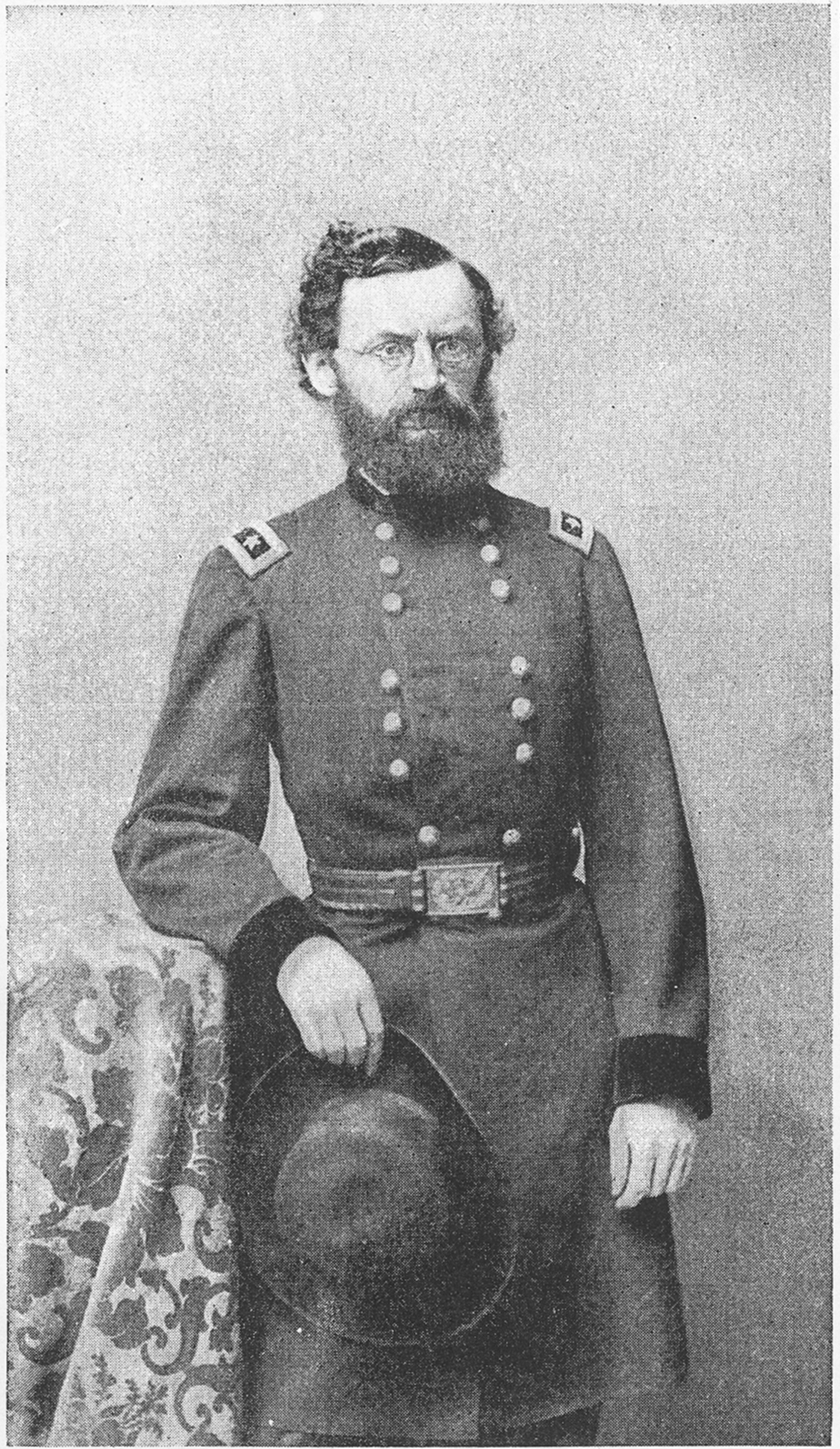 Three-quarters-length black-and-white portrait of Carl Schurz as a Major General in the U.S. Army during the Civil War. He is standing in uniform with his right arm resting on a draped support of some sort.